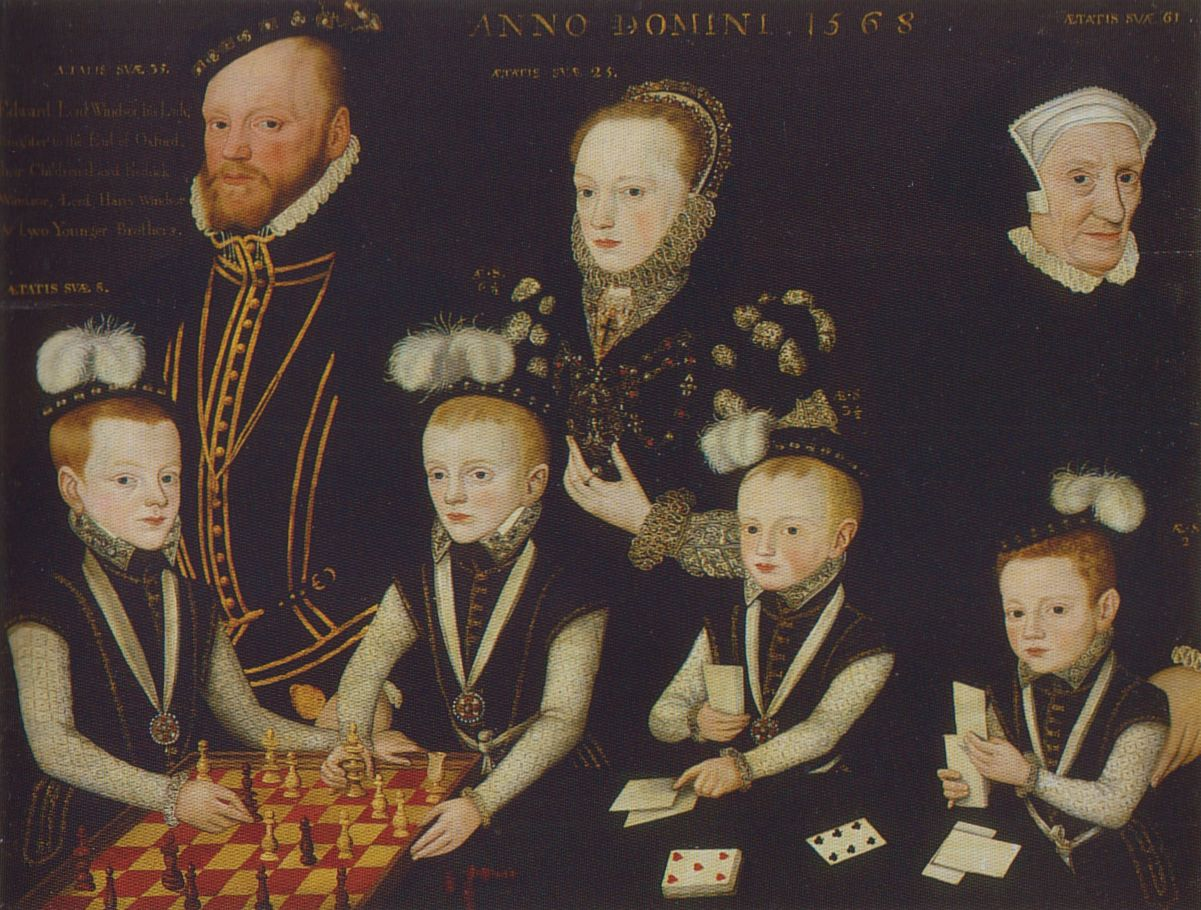 Portrait of Edward, 3rd Baron Windsor, his wife Katherine de Vere, and their family, dated 1568.